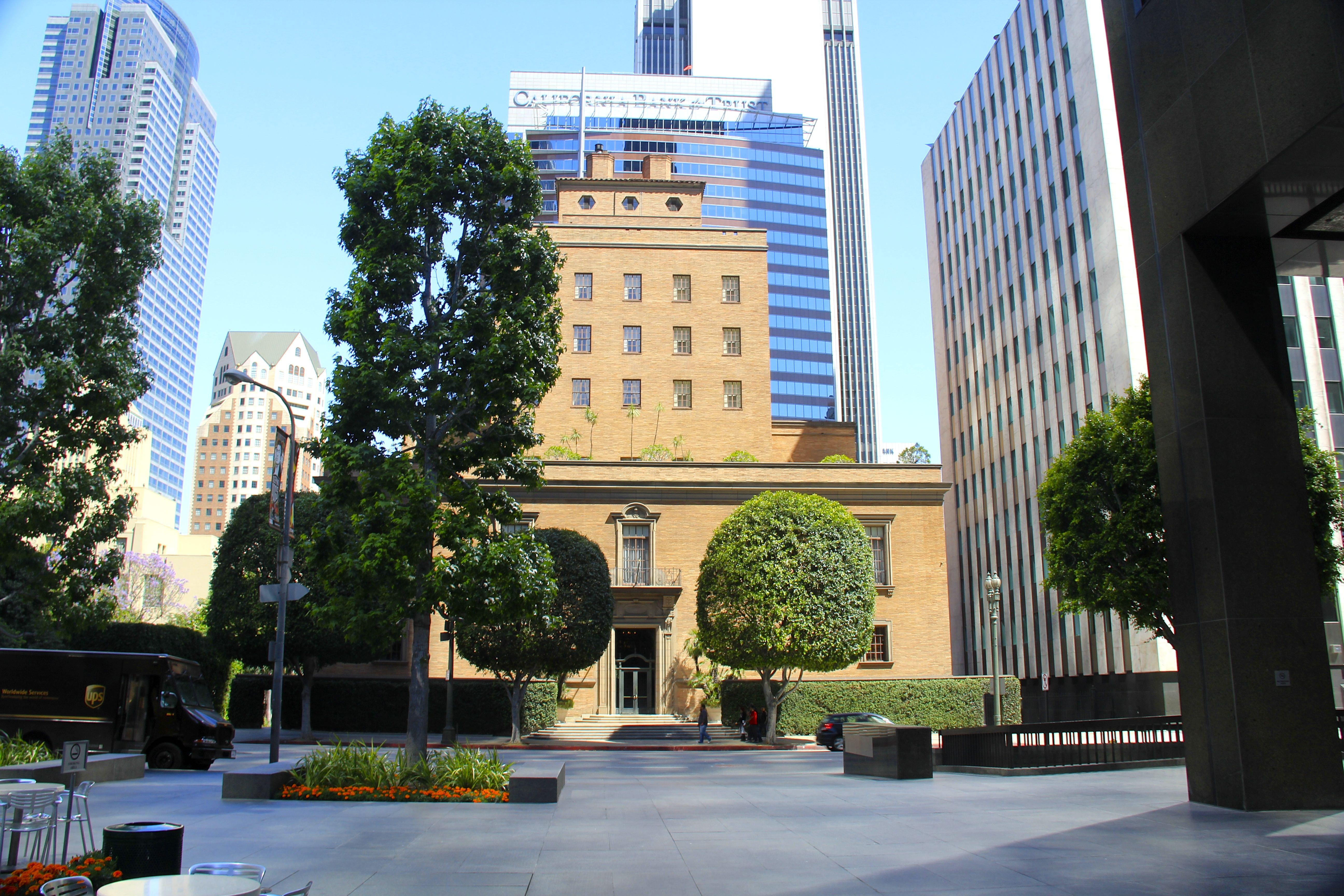 The California Club, 538 South Flower St. Downtown Los Angeles